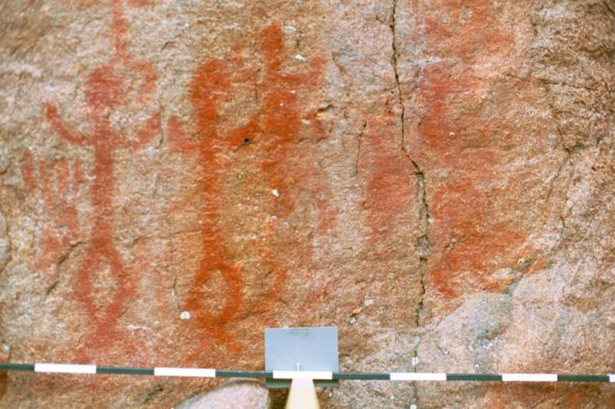 Rock painting at Juusjärvi, Kirkkonummi, Finland